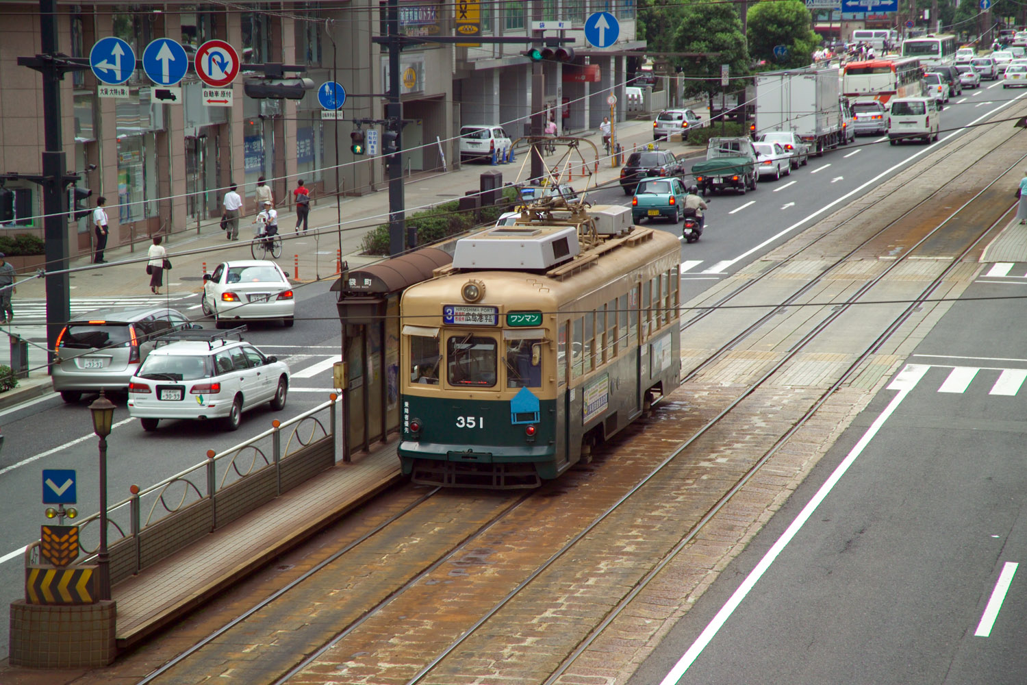 A Hiroden streetcar at Hiroden Fukuromachi Station